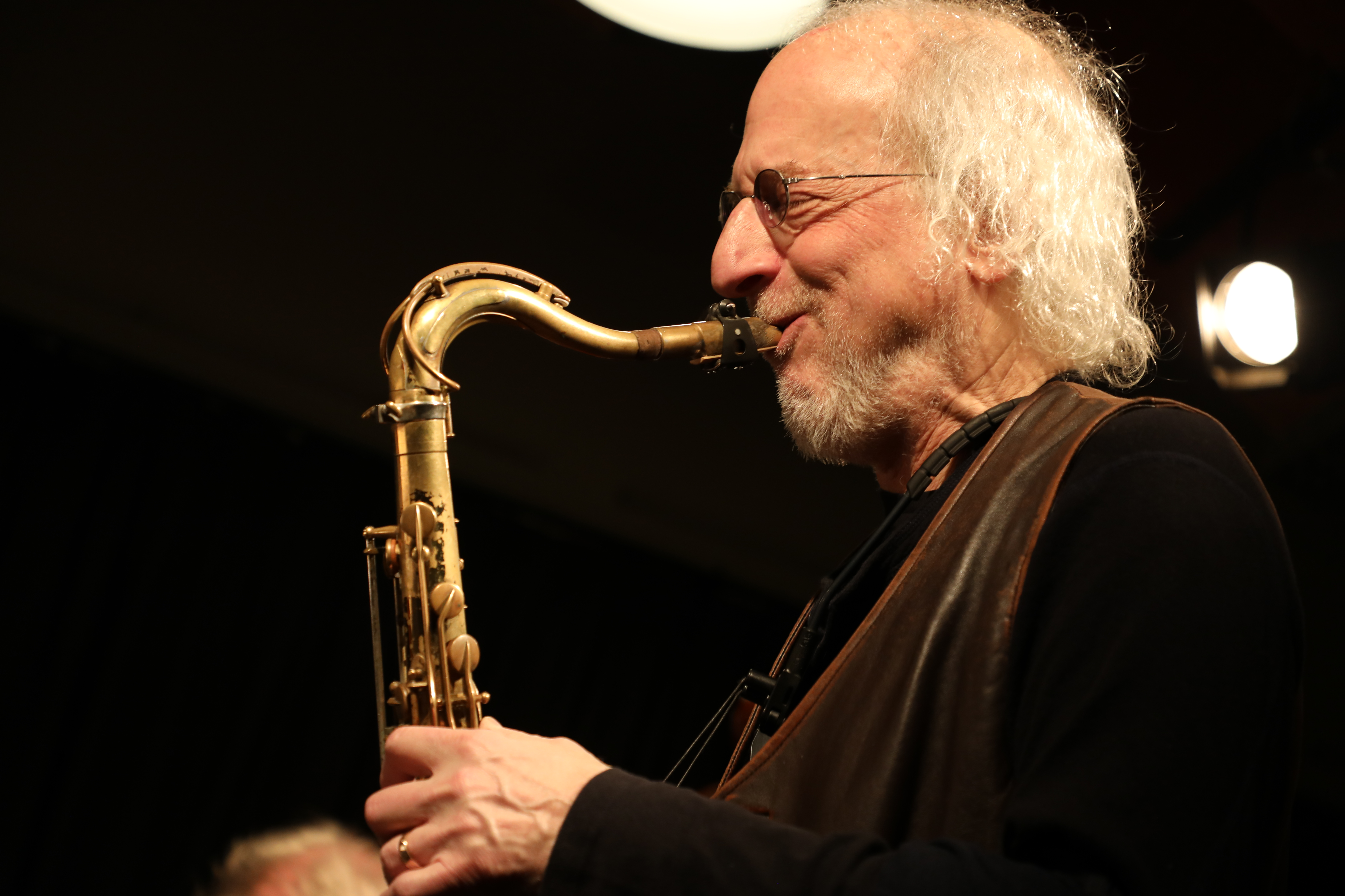 The Fictive Five is the jazz ensemble of composer and saxophone player Larry Ochs. Members are Nate Wooley (tr), Harris Eisenstadt (dr), Pascal Niggenkemper (db) & Ken Filiano (db).